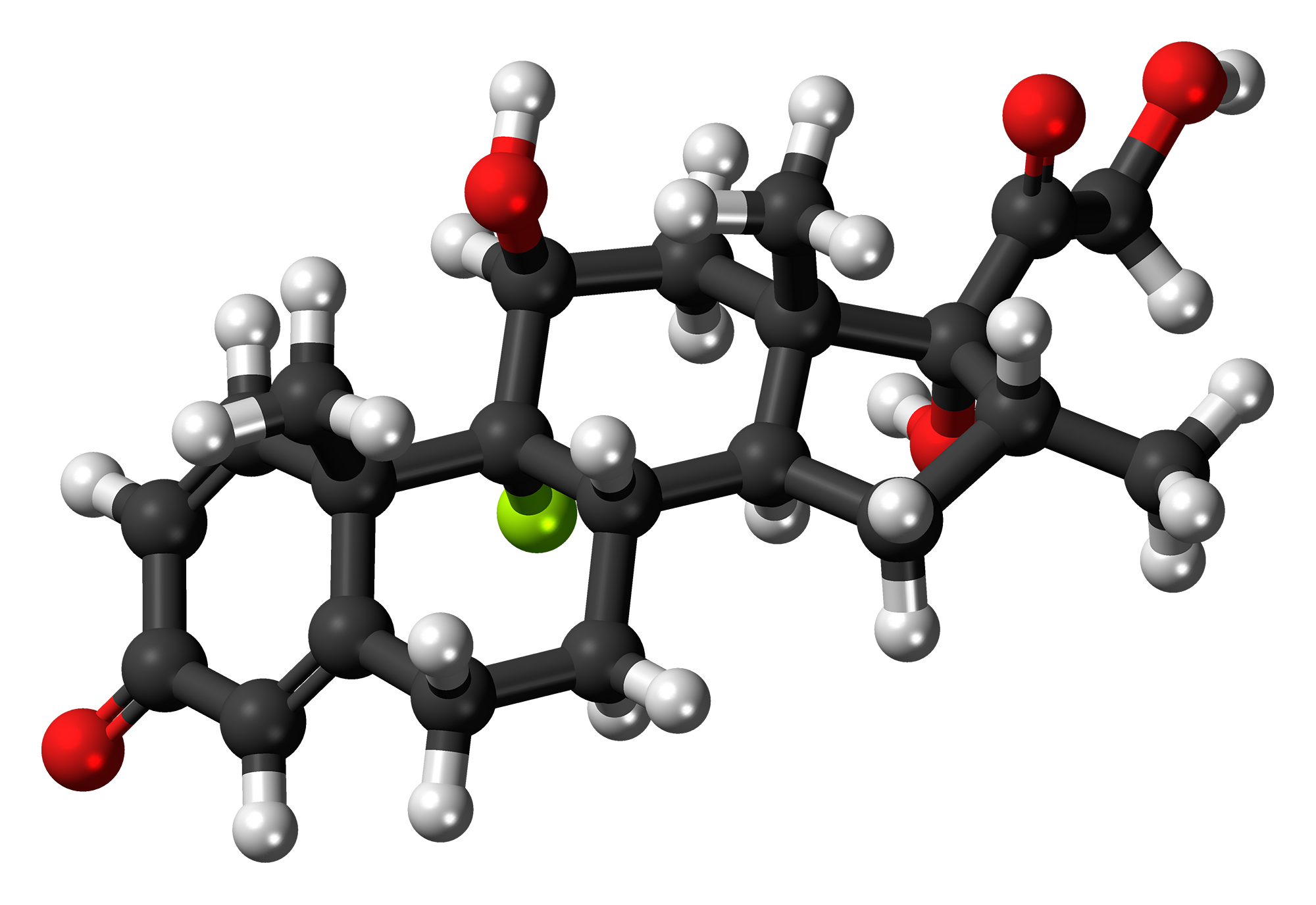 Ball-and-stick model of the dexamethasone molecule, an anti-inflammatory drug. Colour code: Carbon, C: black Hydrogen, H: white Oxygen, O: red Fluorine, F: yellow-green